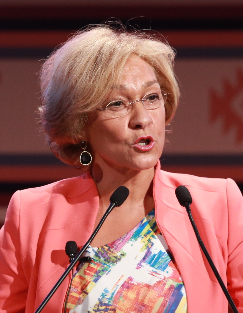 Session 10 - Tourism and the Spanish speaking world, Ana Isabel Moriño, Minister of Employment, Tourism and Culture, Region of Madrid